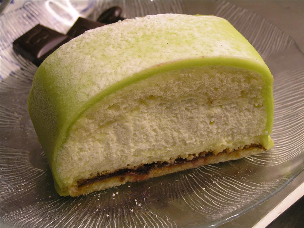 Foto: Bengt Olof Åradsson Bilden får fritt användas This work has been released into the public domain by its author, Bengt Olof Åradsson. This applies worldwide. In some countries this may not be legally possible; if so: Bengt Olof Åradsson grants anyone the right to use this work for any purpose, without any conditions, unless such conditions are required by law.